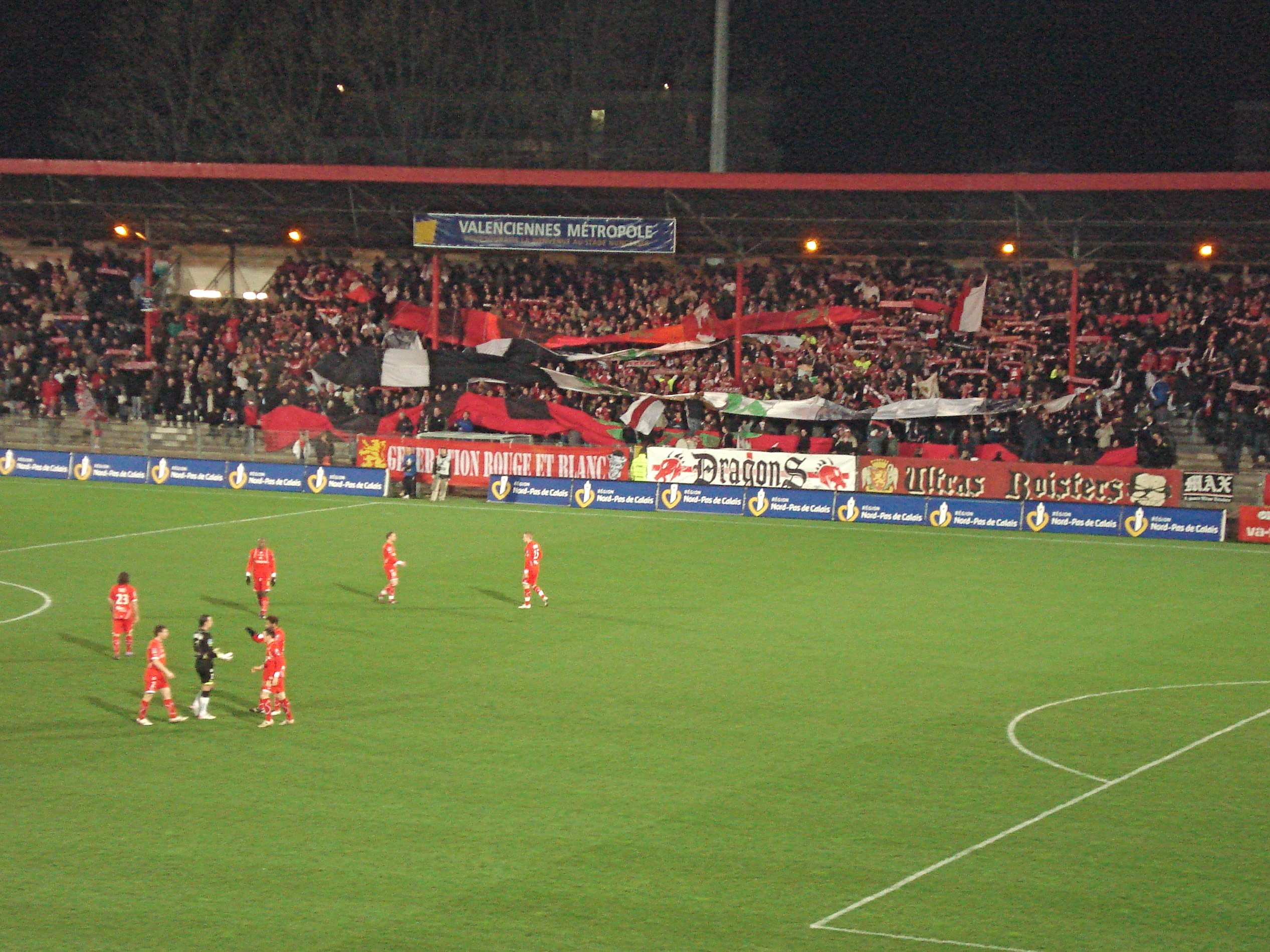 Derby Valenciennes FC VS Lille LOSC (Stade Nungesser) 2008